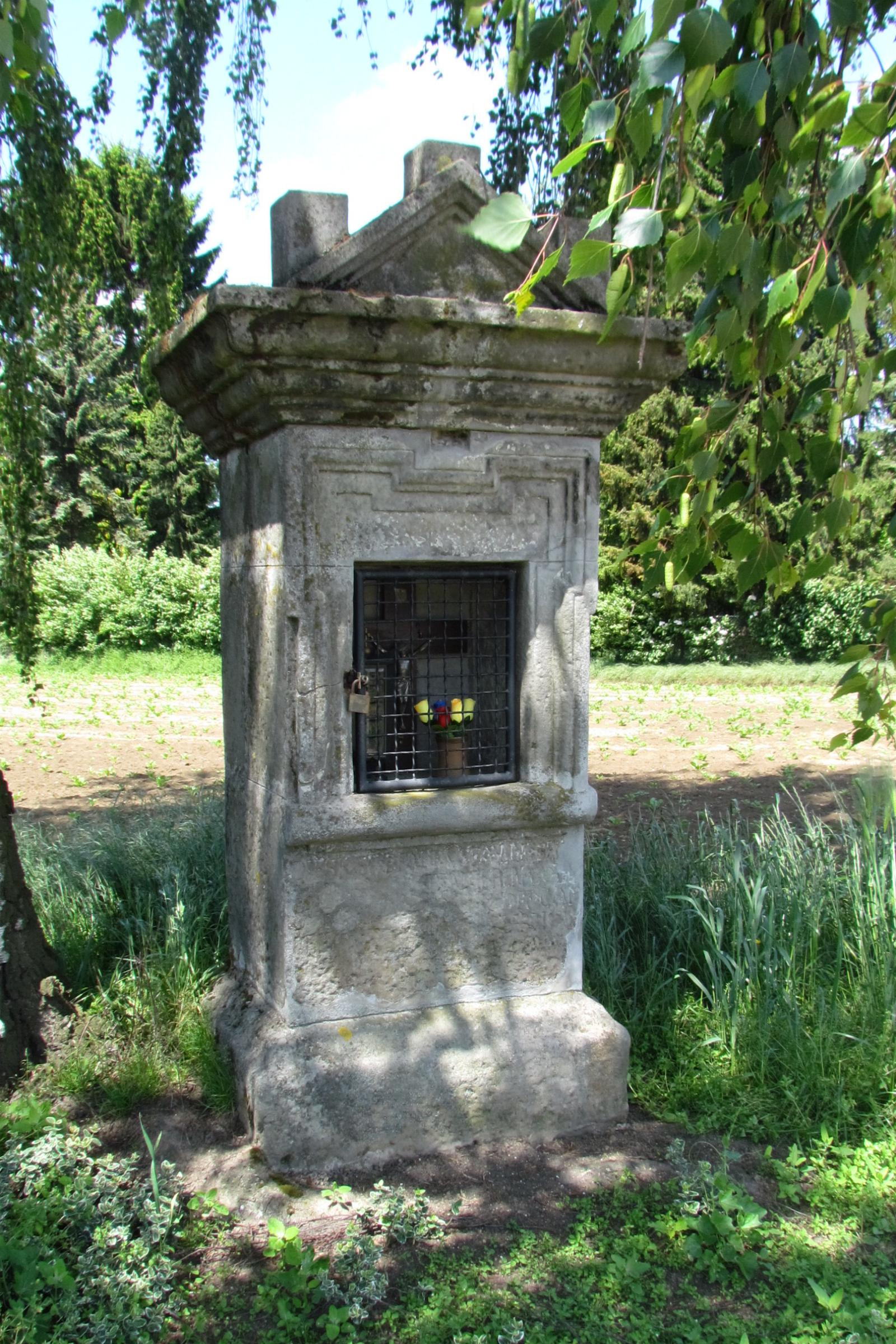 This is a photograph of an architectural monument.It is on the list of cultural monuments of Korschenbroich